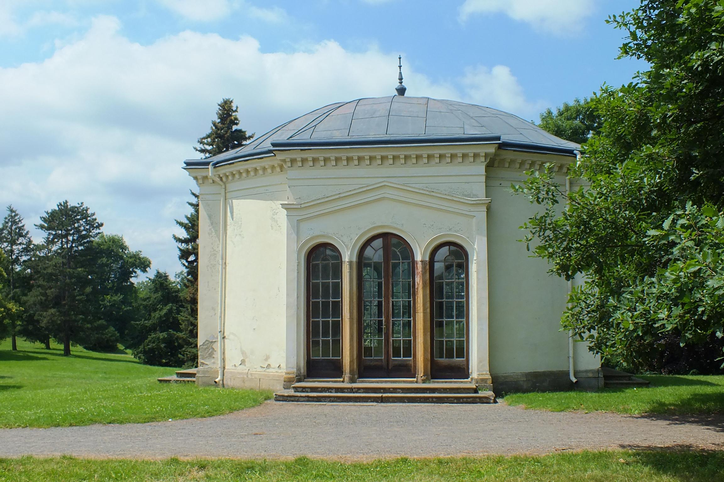 Mánesův pavilon, Empire style pavilion at the park at the Chateau in Čechy pod Kosířem